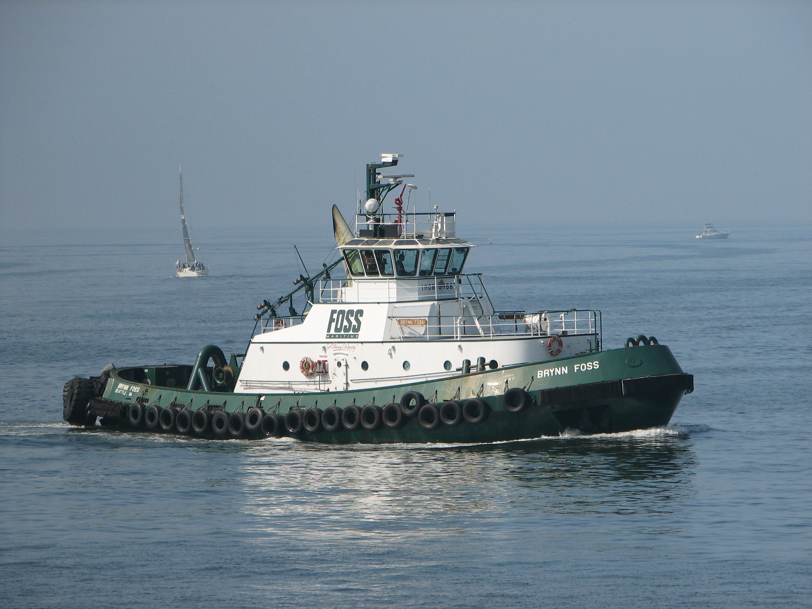 Tugboat Brynn Foss in Redondo Beach. IMO Number: 8127567 MMSI Number: 366982340 Callsign: WTT8531 Length: 31 m Beam: 12 m